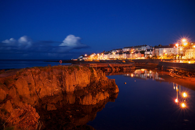 The Long Hole in Bangor, Northern Ireland